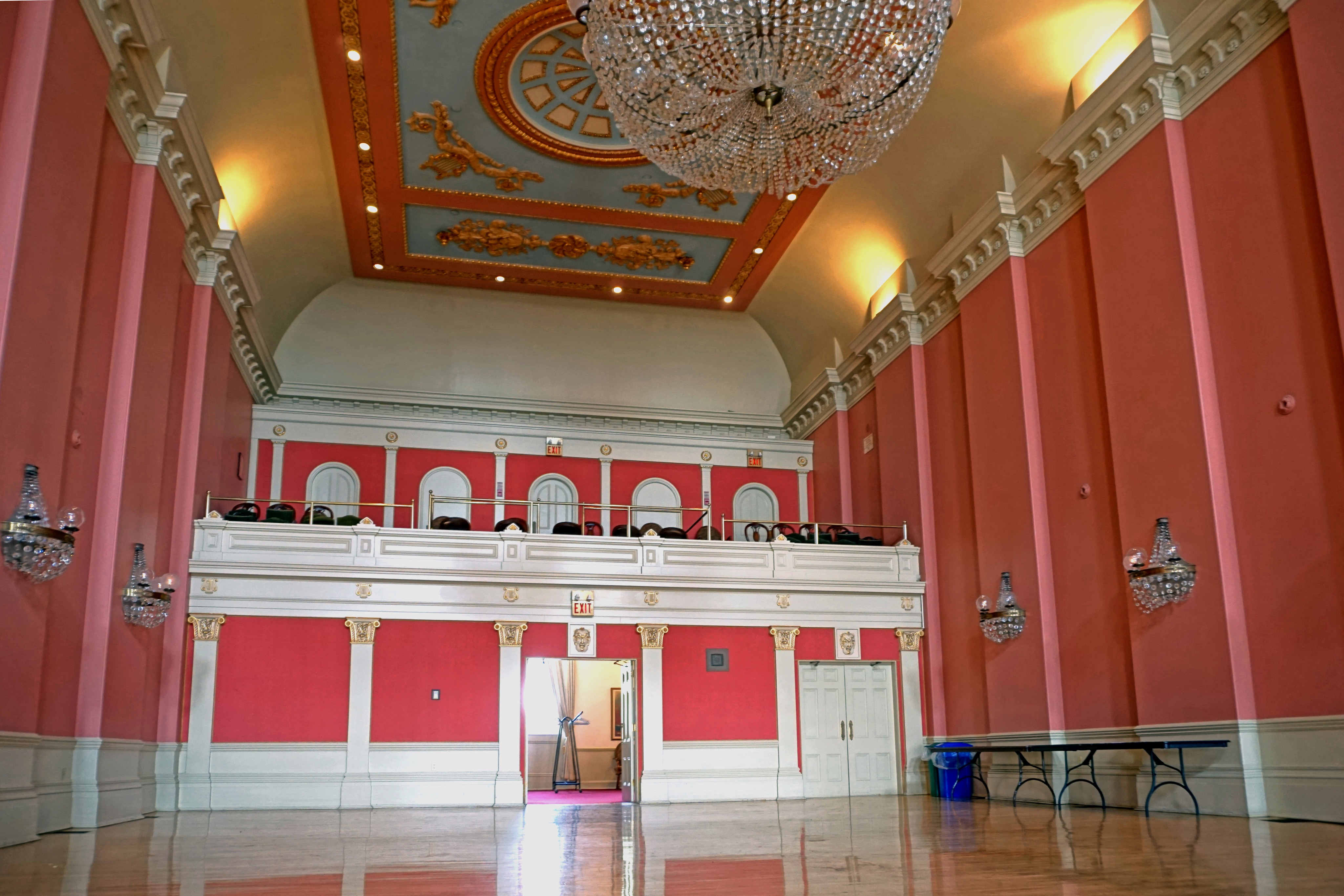 The main room of St Lawrence Hall in Toronto.